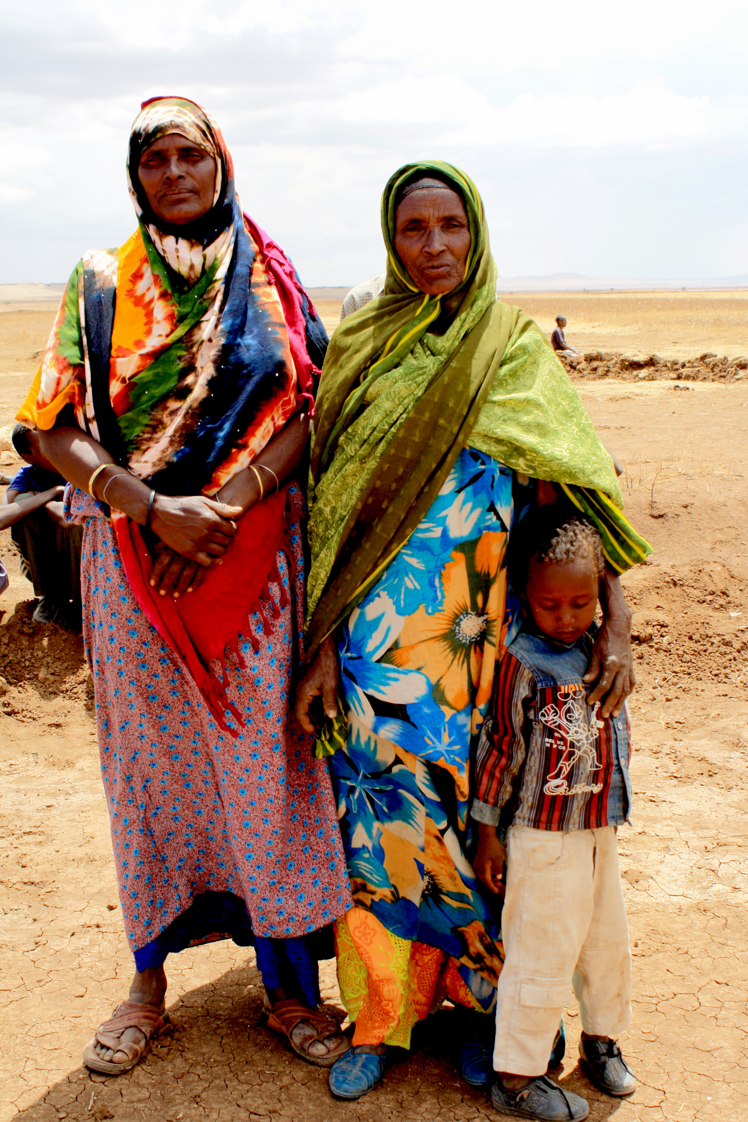 Halima Nur and her friend Hawa benefit from Oxfam's cash-for-work projects in Aynhashahadig in southern Ethiopia. She says: "We crossed this drought because of cash for work"